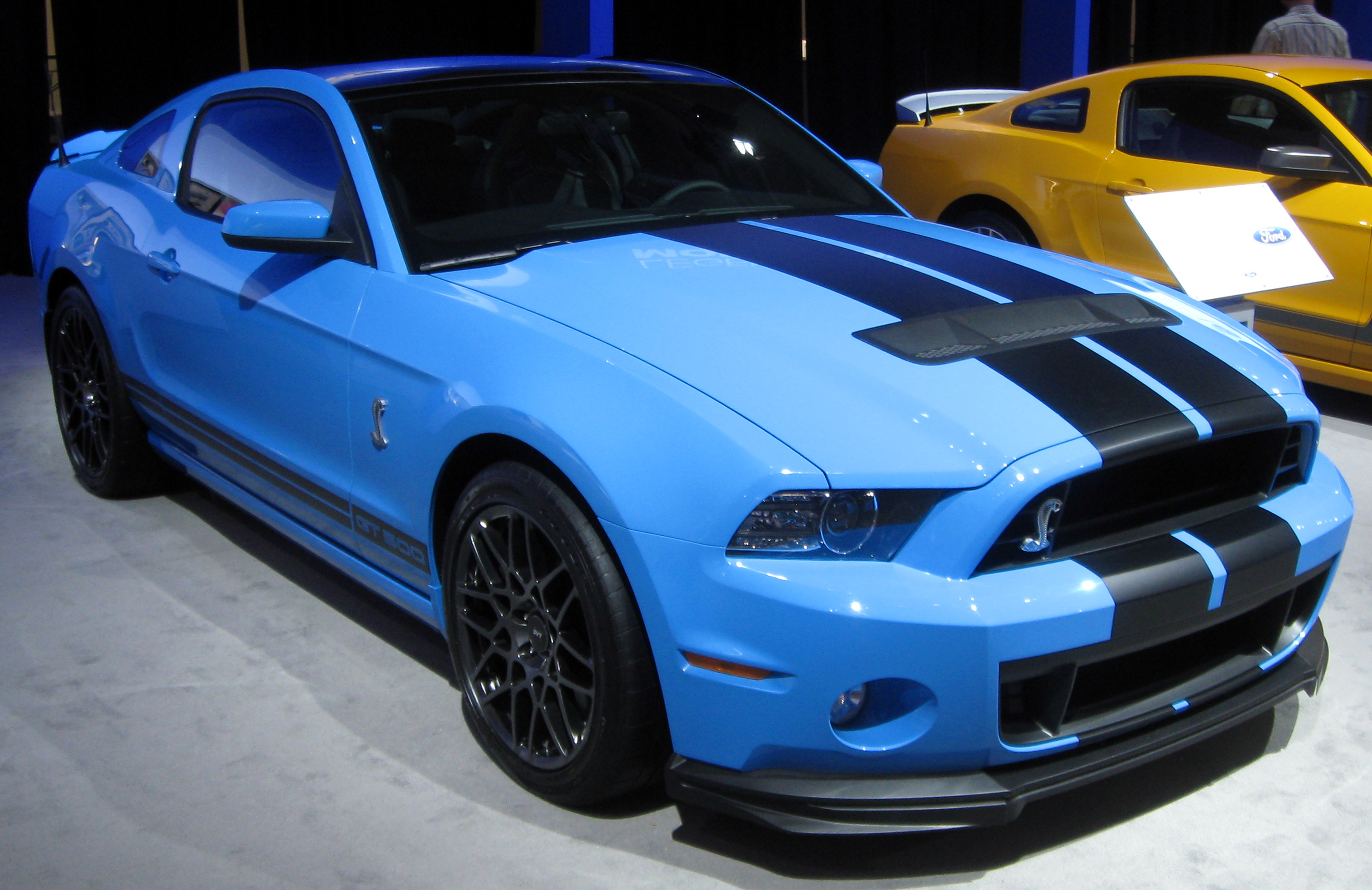 2013 Ford Mustang GT500 photographed in Washington, D.C., USA.